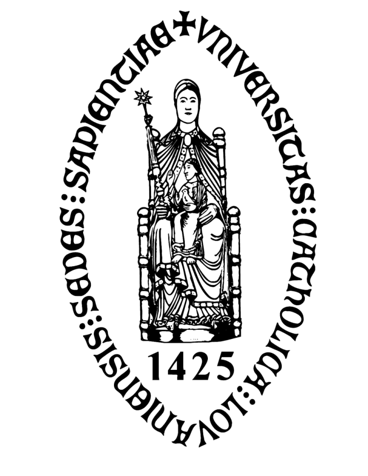 Seal of the Katholieke Universiteit Leuven, since 1970.